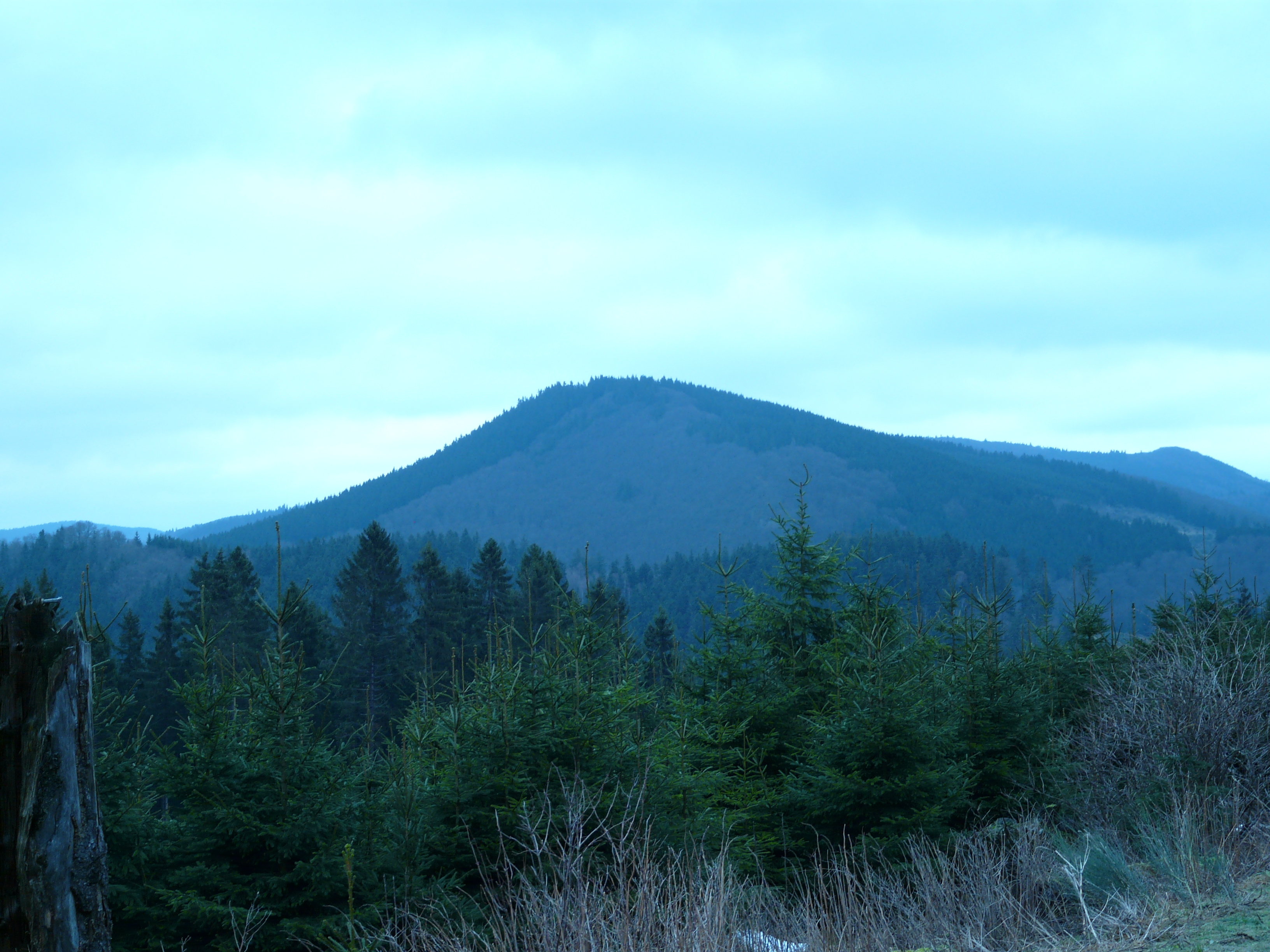 Alte Grimme near Elkeringhausen